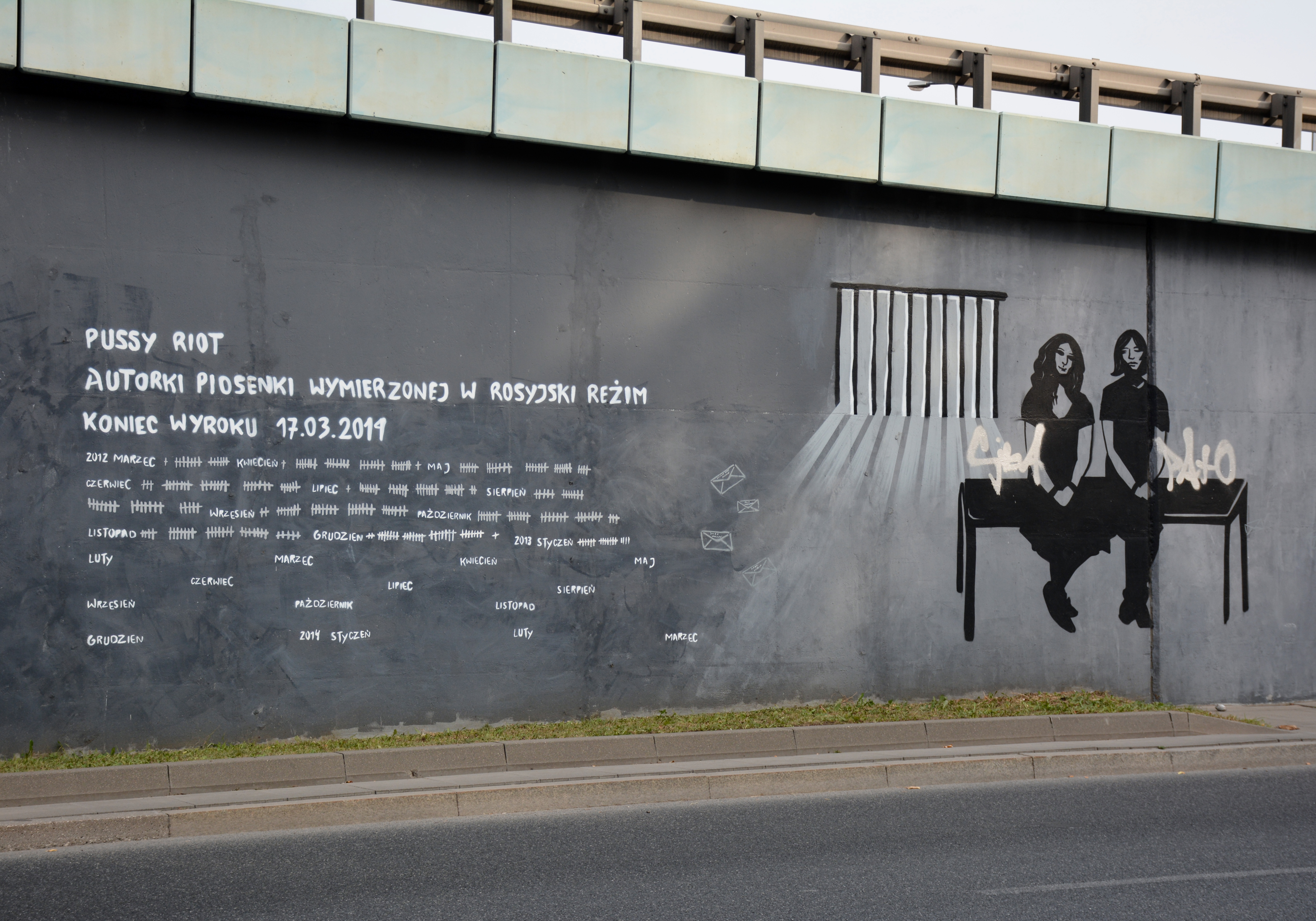 Czyste, Warsaw, Poland